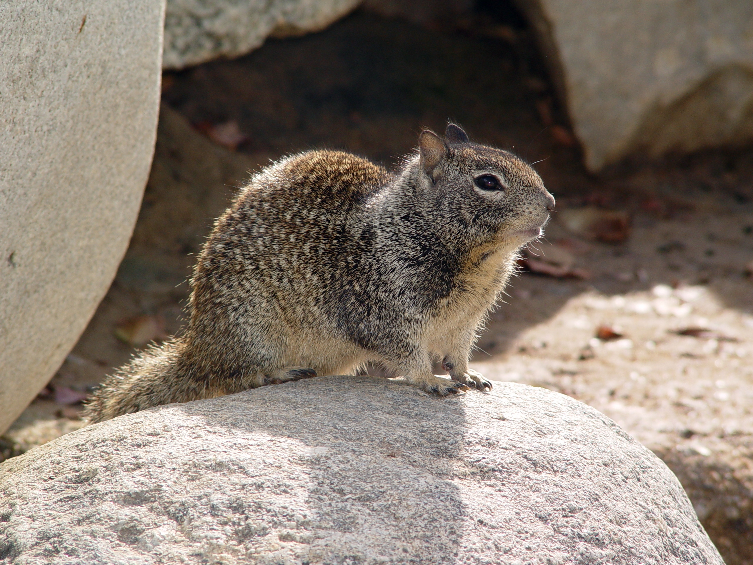 California Ground Squirrel (Spermophilus beecheyi). Taken in Thousand Oaks, California.